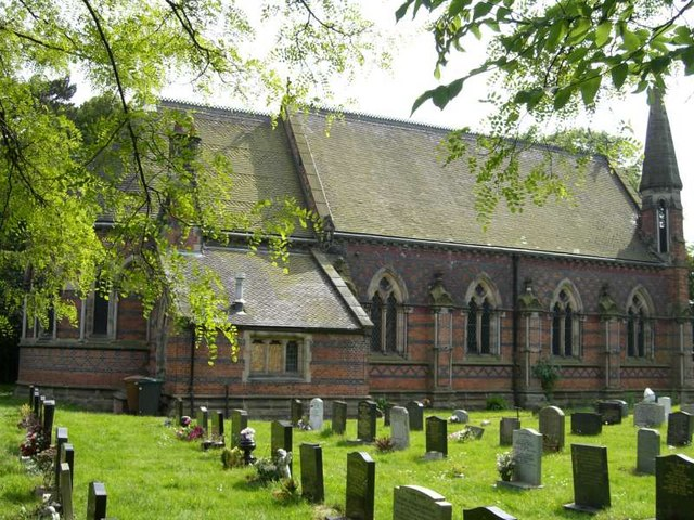 St Michael and All Angels parish church, Crewe Green, Cheshire, seen from the north